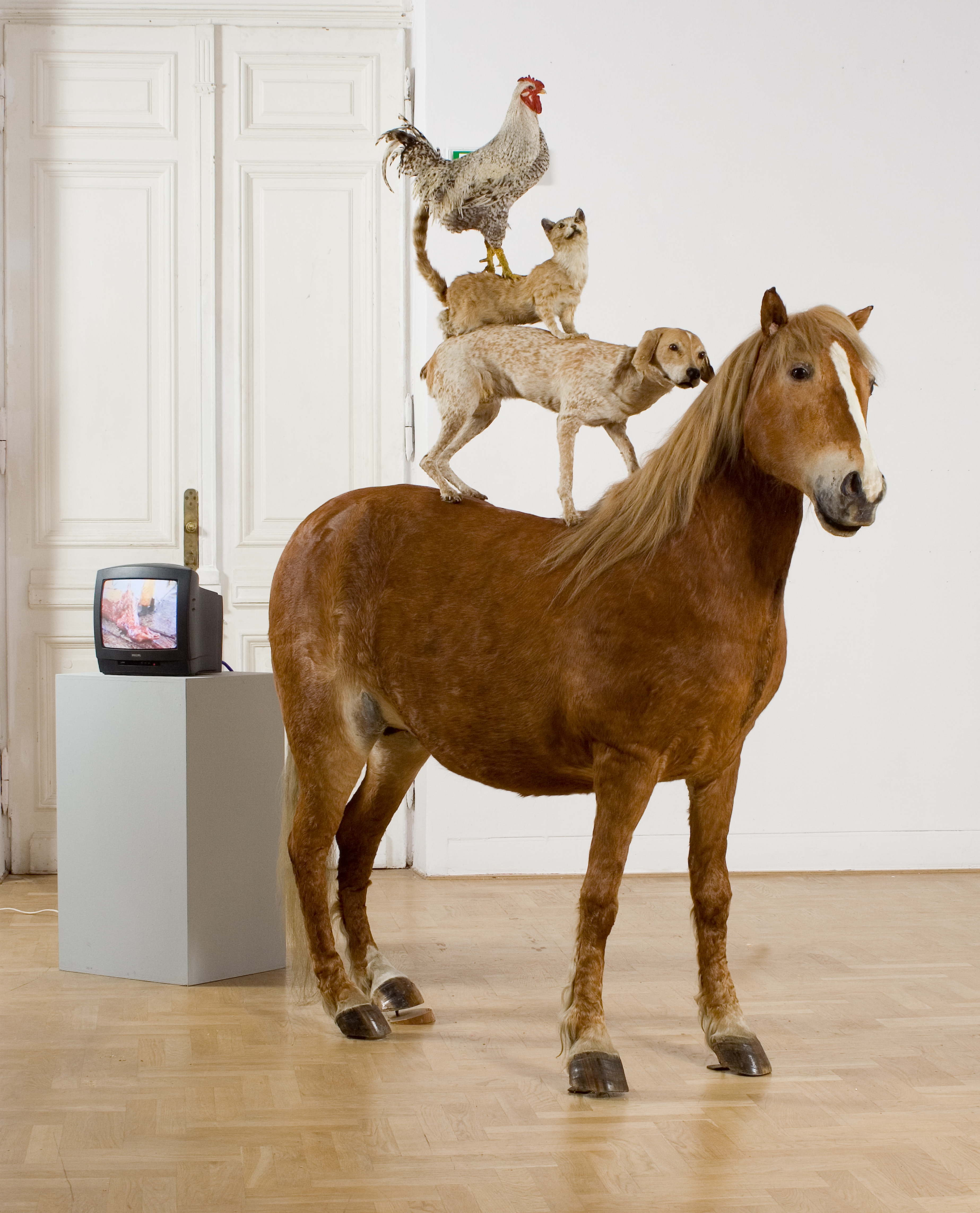 "Piramida zwierząt" by Katarzyna Kozyra, from the permanent collection of Zachęta National Gallery of Art (Warsaw, Poland)